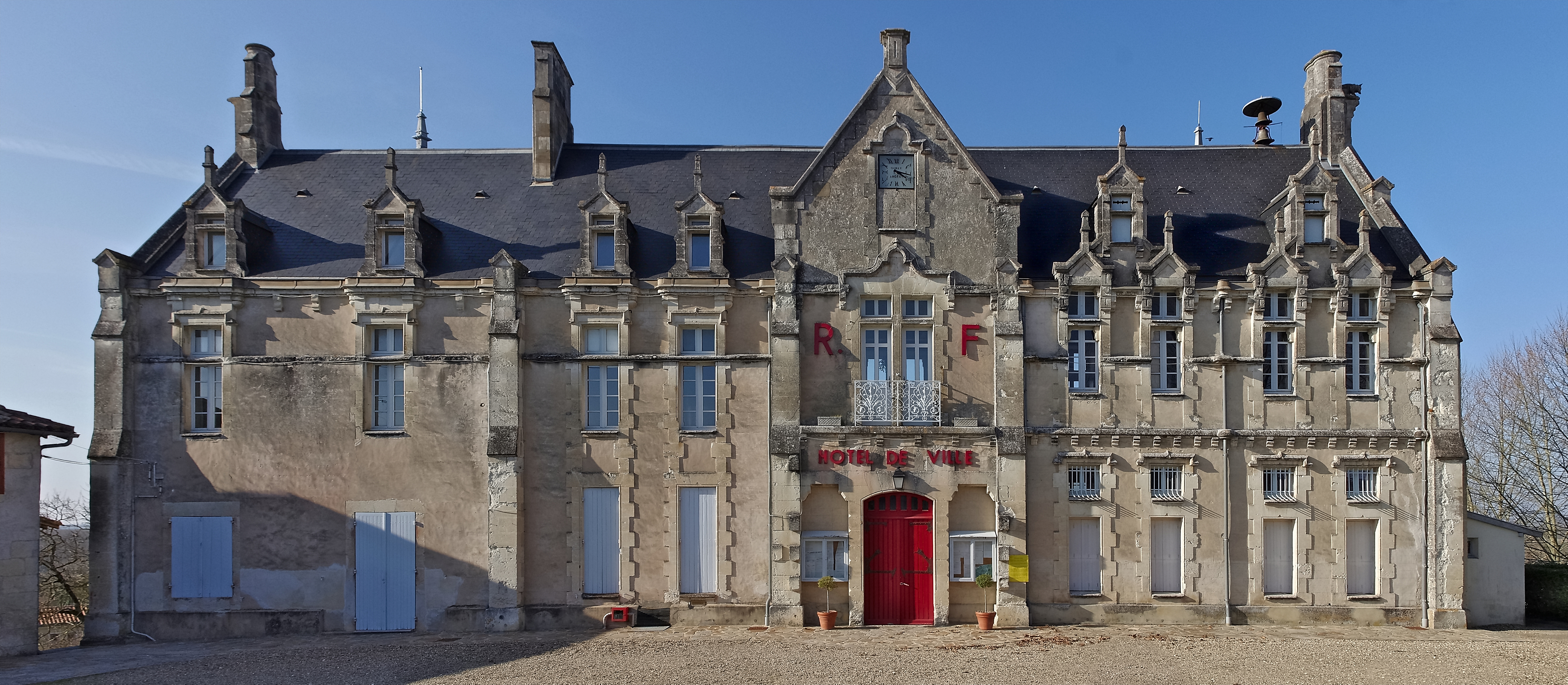 Town hall, located in the castle (15th and 19th centuries), Saint-Aulaye, Dordogne, France. .